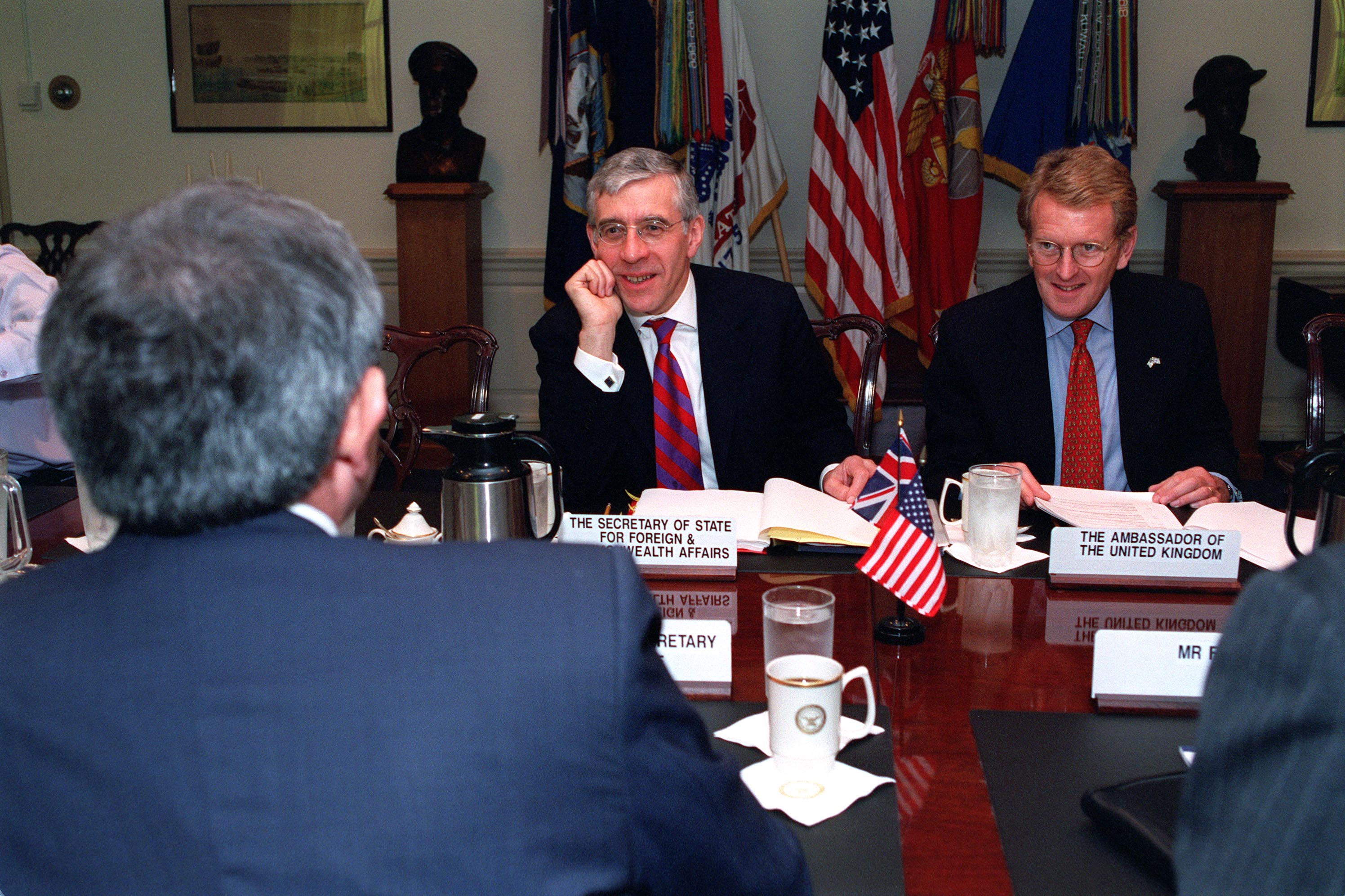 Secretary of State for Foreign and Commonwealth Affairs Jack Straw (centre), of the United Kingdom, meets at the Pentagon with US Deputy Secretary of Defence Paul Wolfowitz (left) on 24th October 2001. Straw met earlier with Secretary of Defence Donald H. Rumsfeld to discuss issues related to the so-called "War on Terrorism" and the ongoing military operations directed against the Taliban and al Qaeda organisations in Afghanistan. United Kingdom's Ambassador to the U.S. Christopher Meyer (right) joined Straw and Wolfowitz in the discussion.